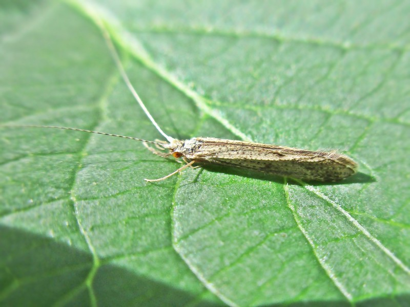 Leptocerus tineiformis (Leptoceridae sp.), Elst (Gld), the Netherlands